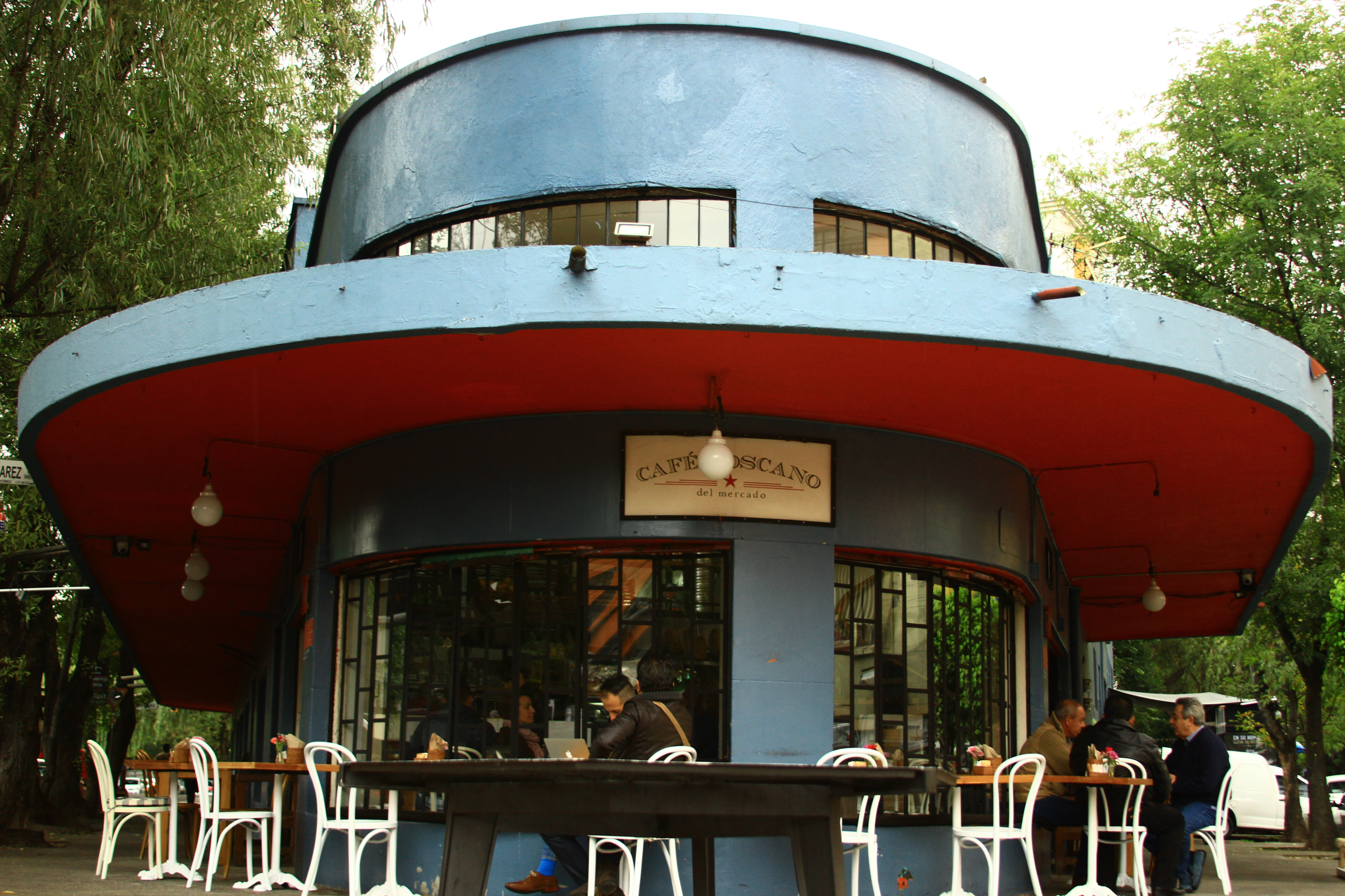 Low view of the west corner of the Michoacán market and the Toscano Cafe in La Condesa neighborhood, Mexico City, Mexico